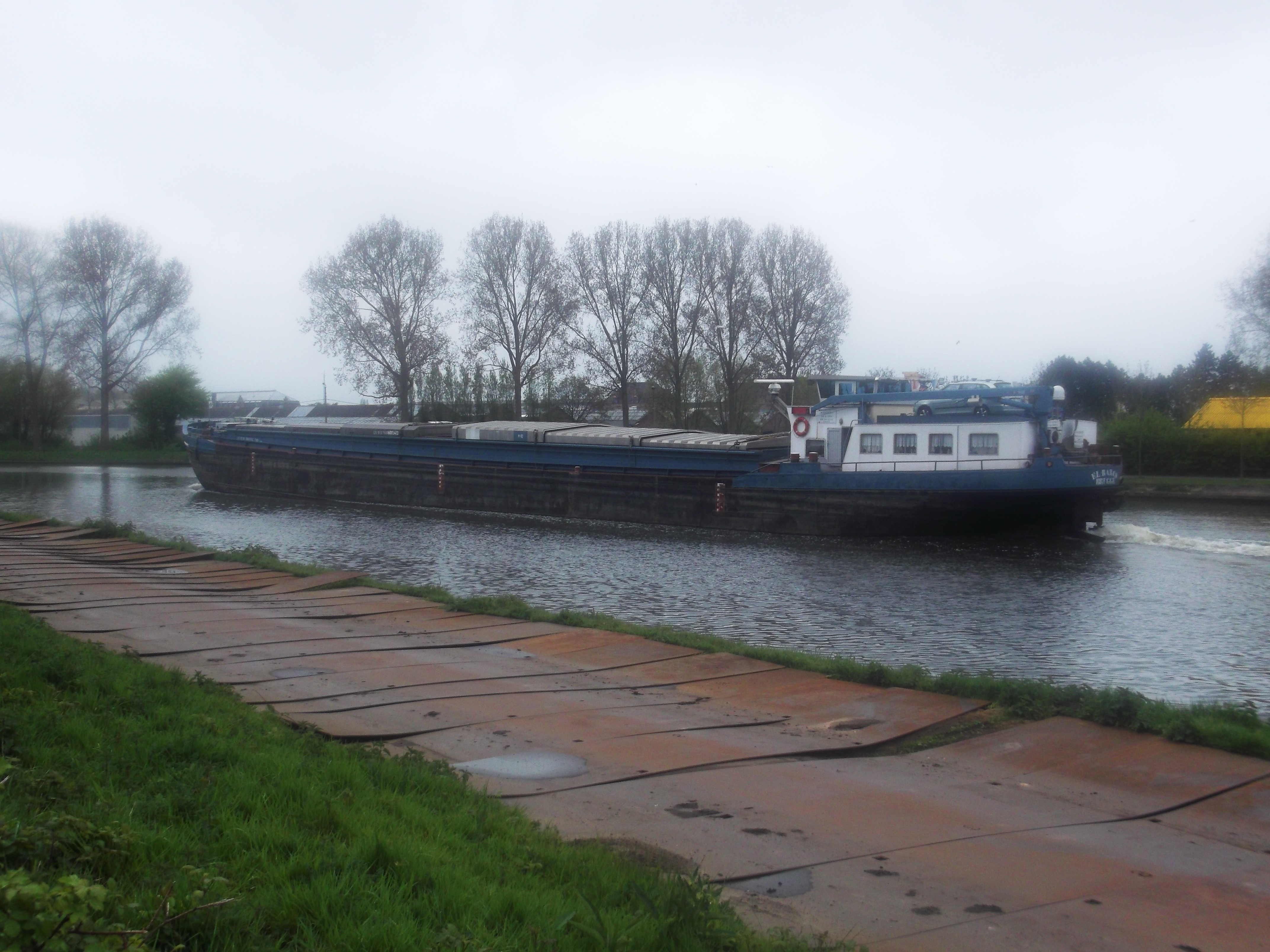 A ship in a chanel of Bruges